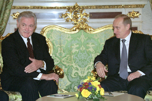 THE KREMLIN, MOSCOW. President Putin and his Lithuanian counterpart, Valdas Adamkus.